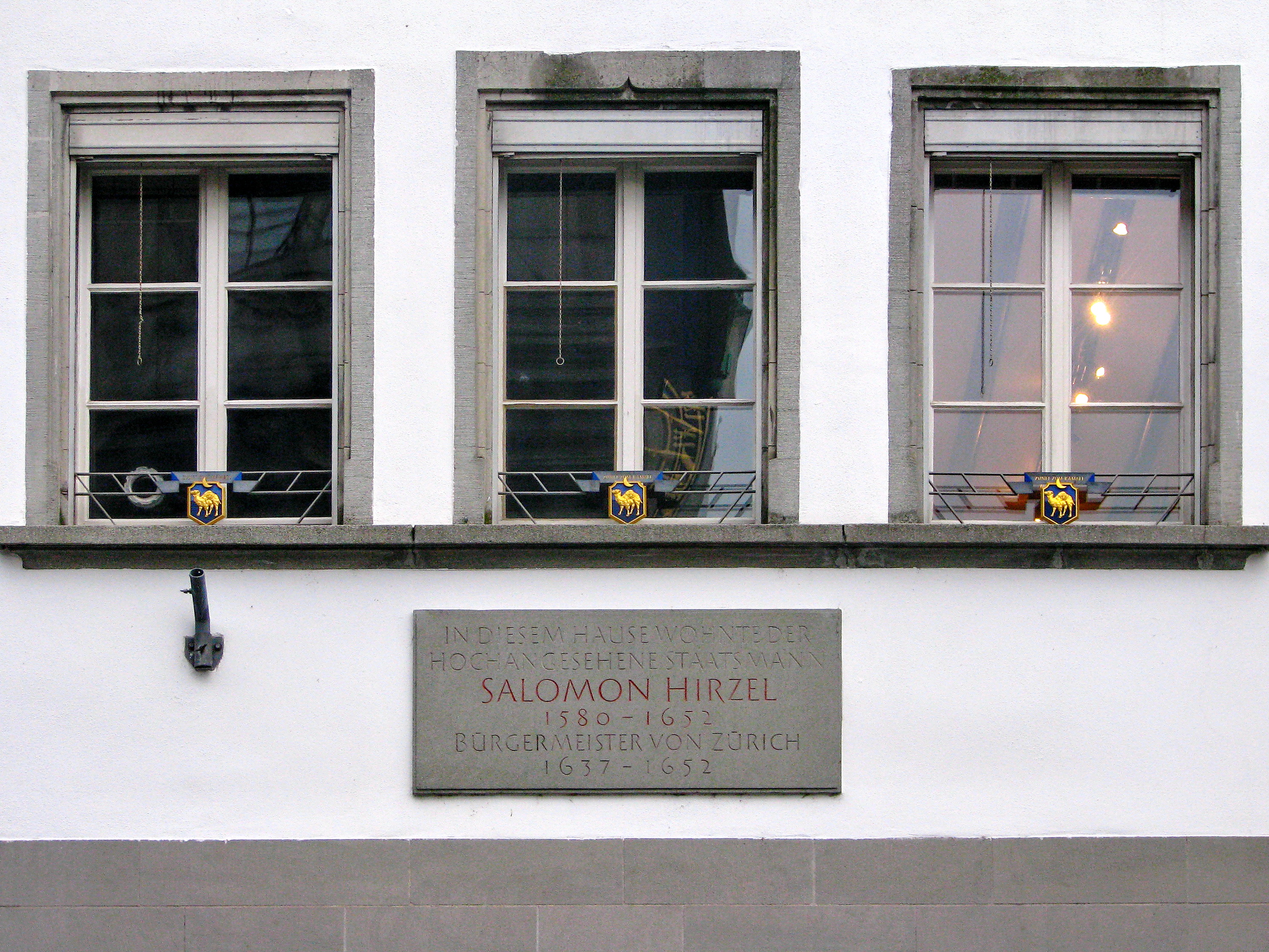 Zürich, Limmatquai : Memorial plate at Guild house «zur Haue» of the Zunft zum Kämbel. The so called «Haus zur Haue» is also the former home of Salamon Hirzel, Mayor of Zürich (* 1580; † 1652).